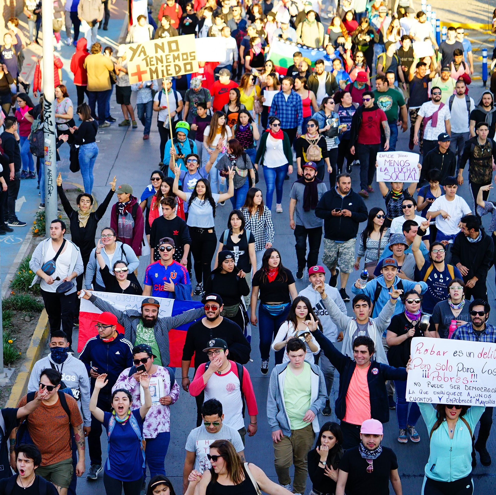 Sunday, october 20th - More than 20 thousand people gathered at the Plaza de Los Heroes (Heroes Square) at the very center of the city of Rancagua to peacefully demonstrate their will for a deep change of the state politics. This was the first masive march in more than 30 years.